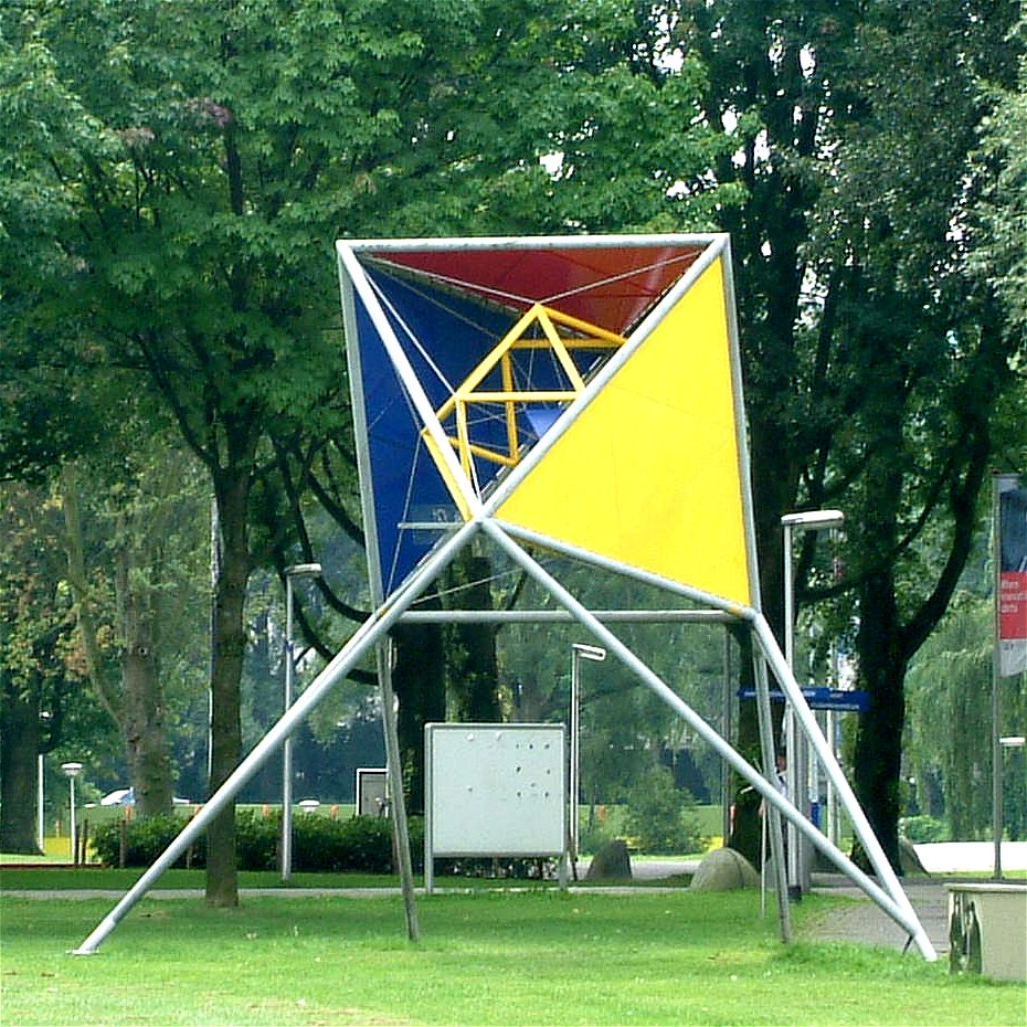 Le Poème Électronique. Le Corbusier. 1958.